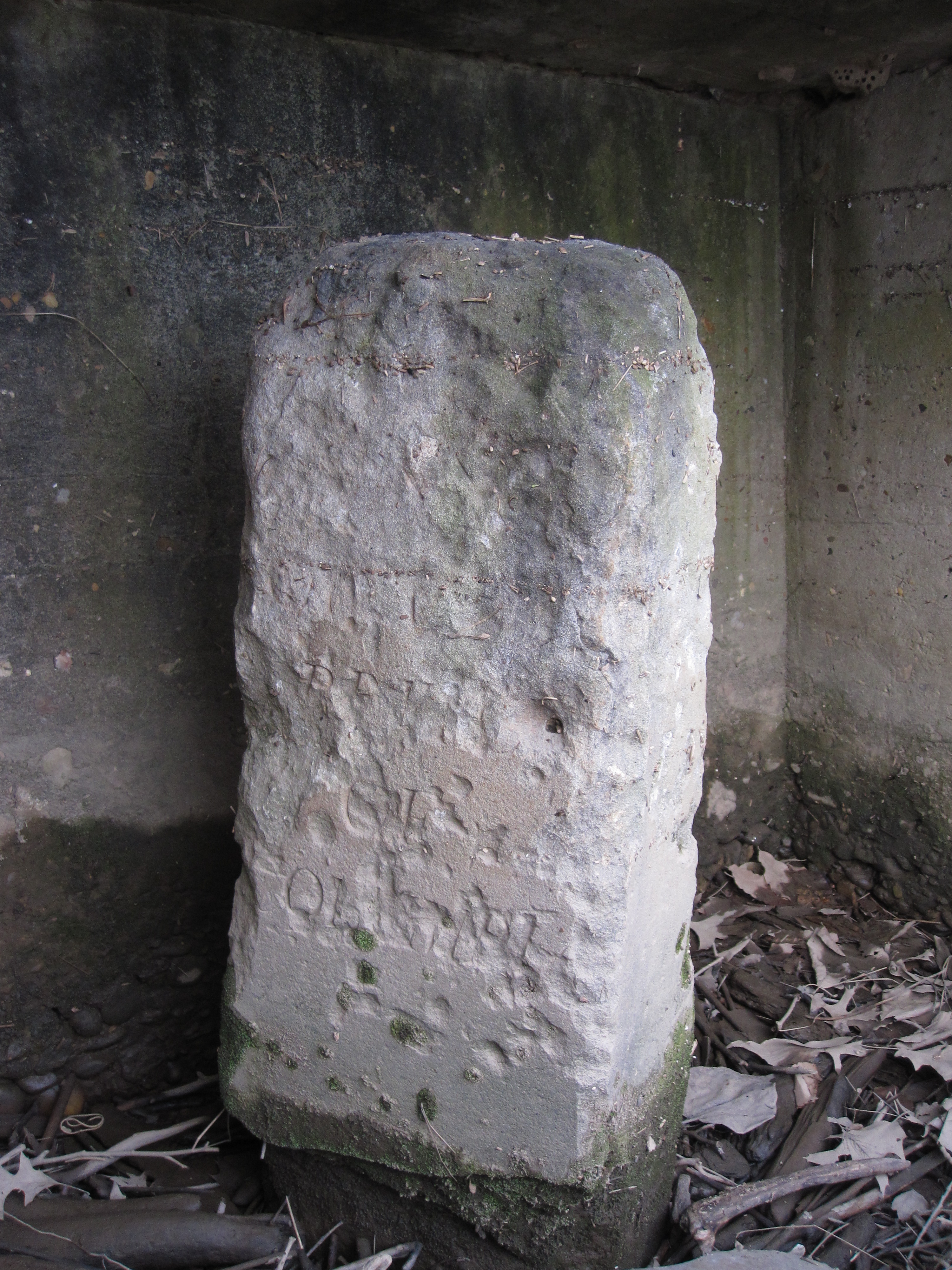 A close-up of the southern cornerstone of the original D.C. boundary markers. The stone is located in the sea wall of Jones Point Light.